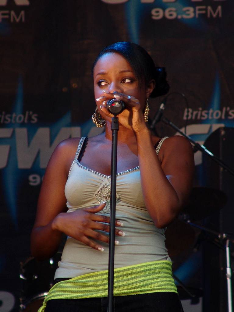 (c) Rokfoto